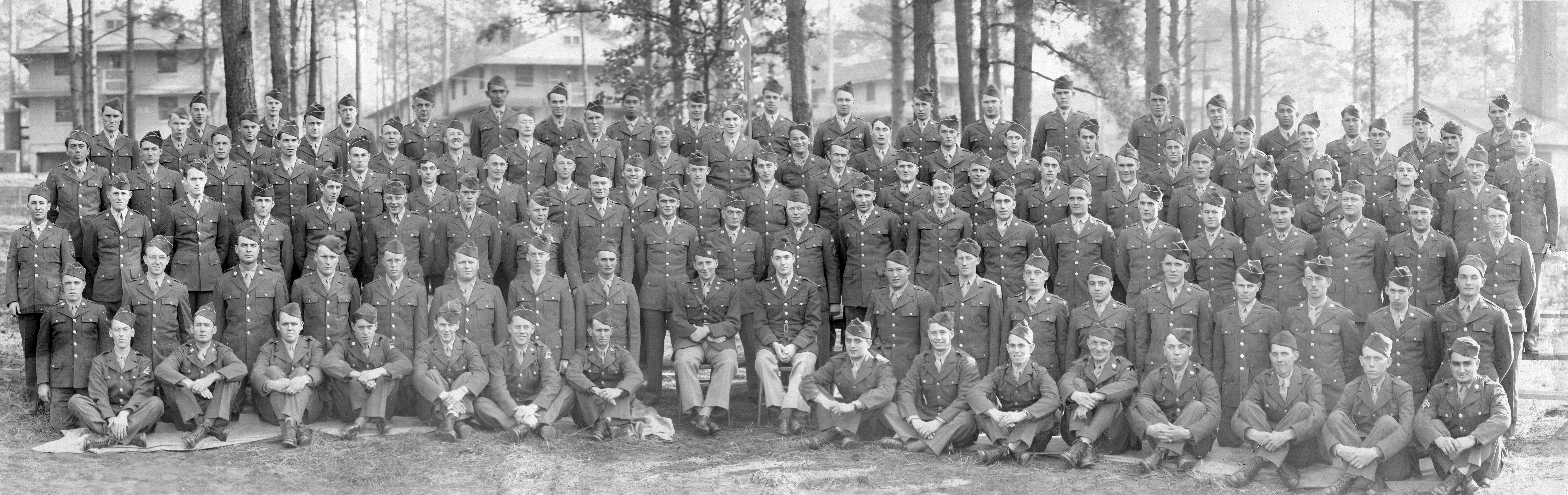 10th Armored Division, 21st, Tank Battalion, Company B